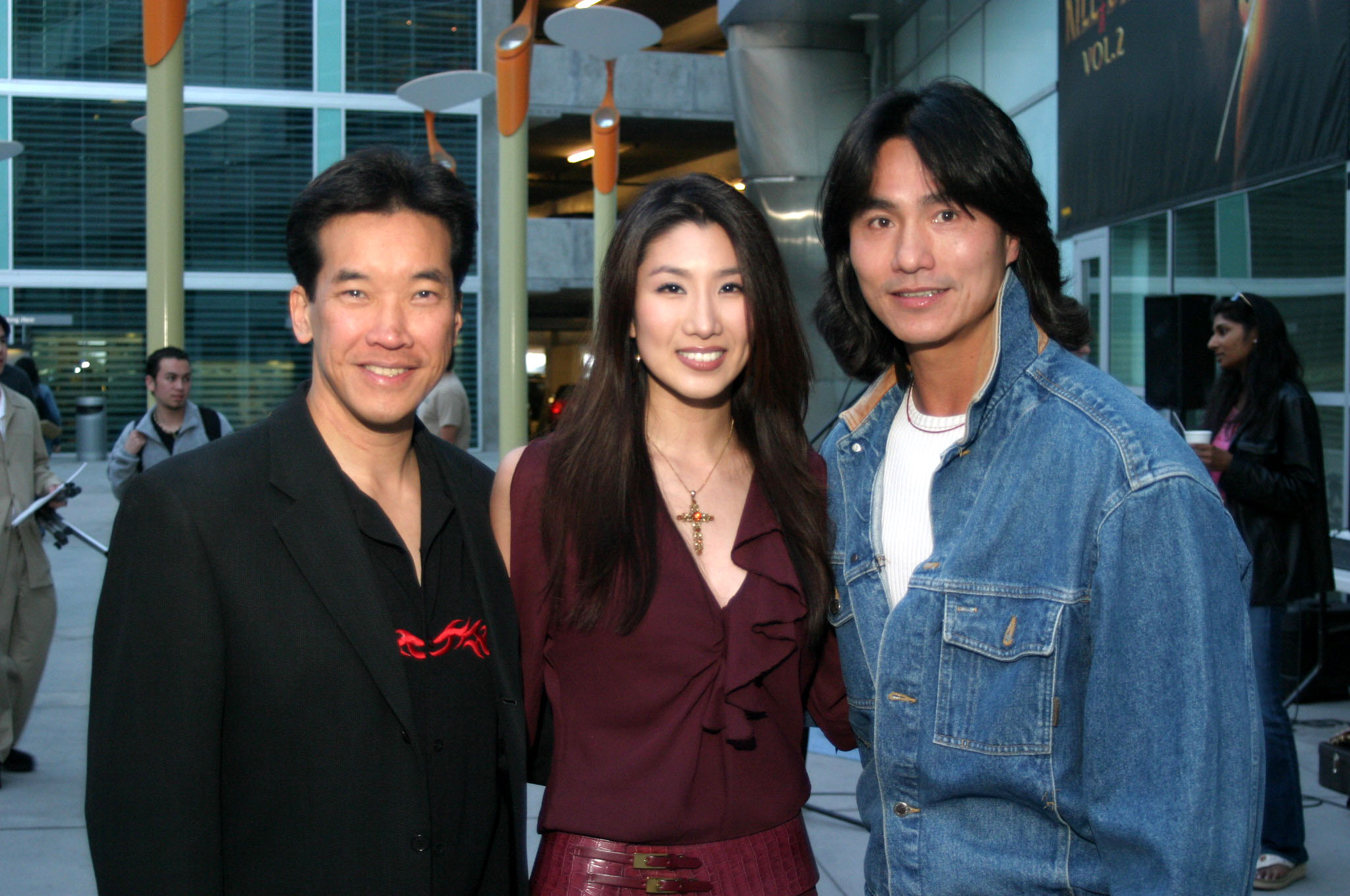 Actors Peter Kwong, Annie Lee and Robin Shou.